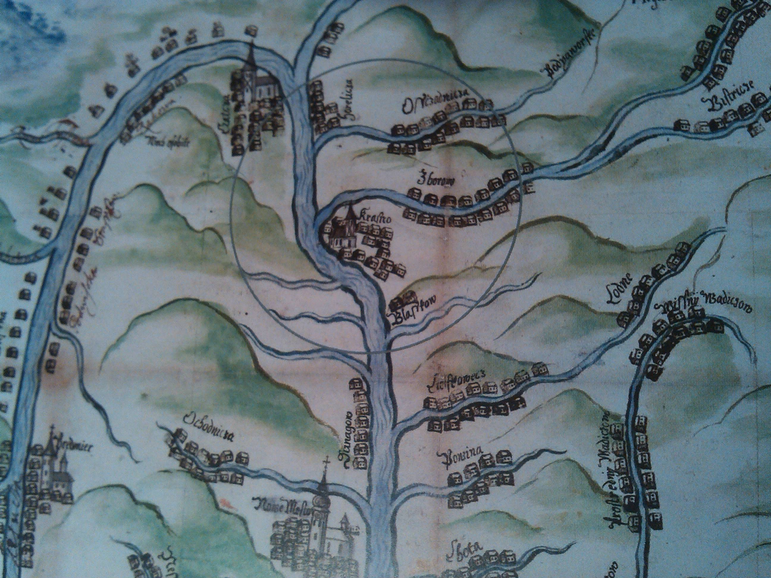 Coloured map of the Kysuca region in the end of the 17th century.